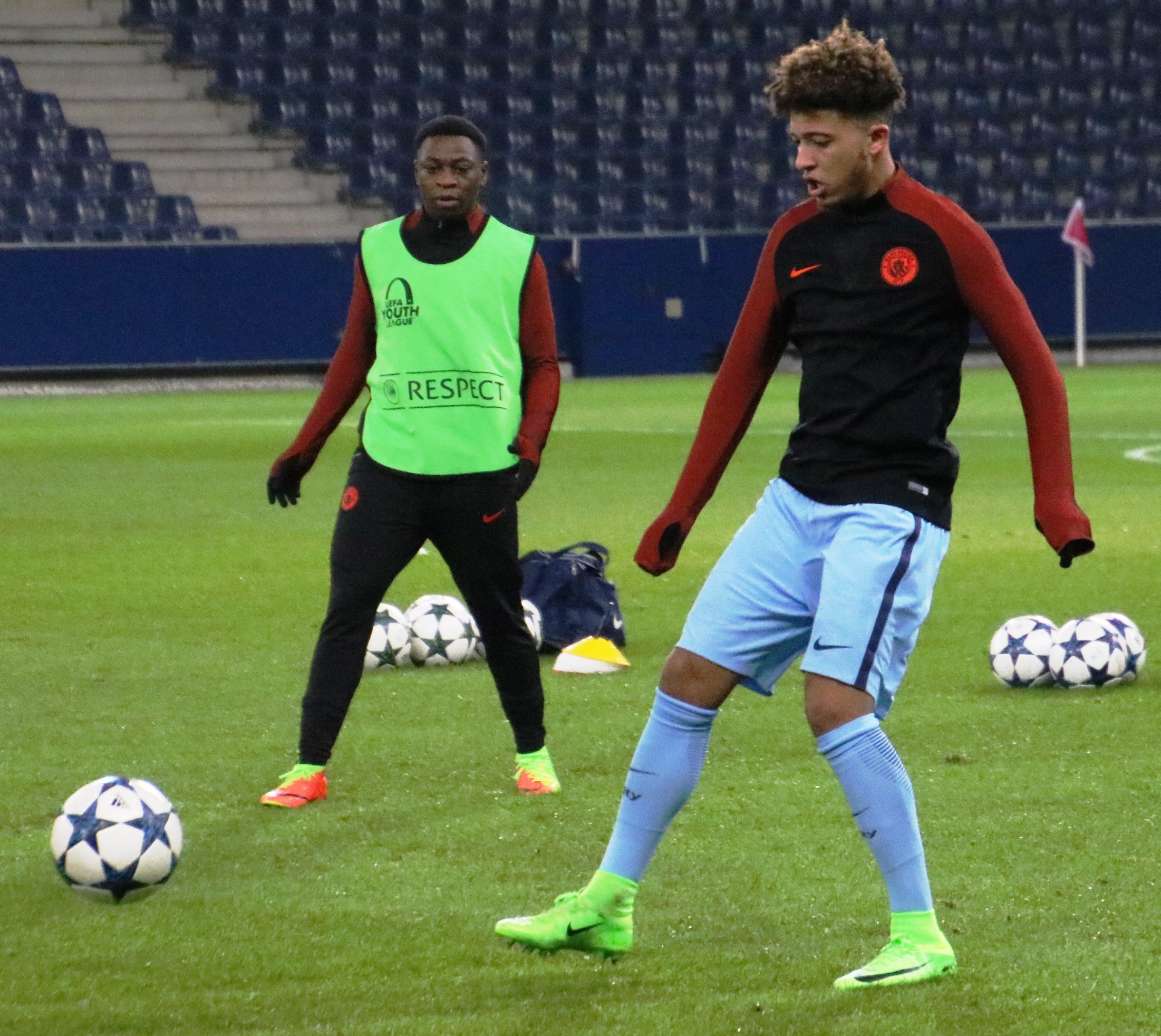 UEFA Youth League play off match. Jadon Sancho (right)